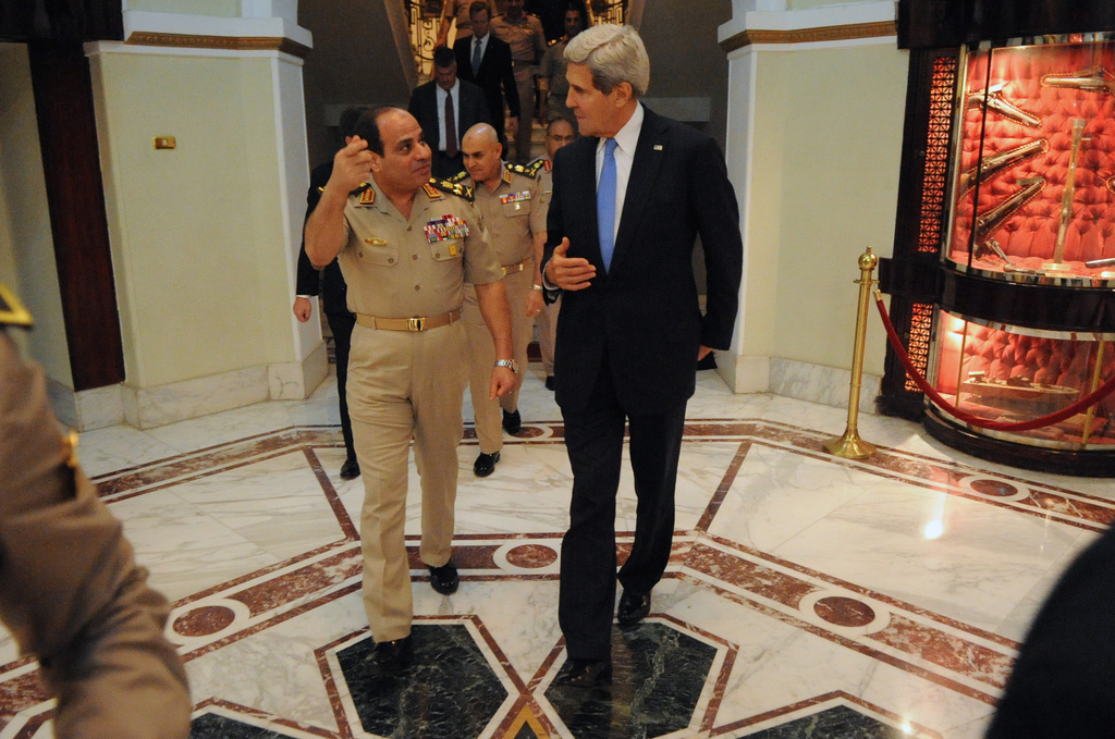 Egyptian Minister of Defense General Abdul Fatah Khalil al-Sisi bids farewell to U.S. Secretary of State John Kerry after a meeting in Cairo, Egypt on November 3, 2013.